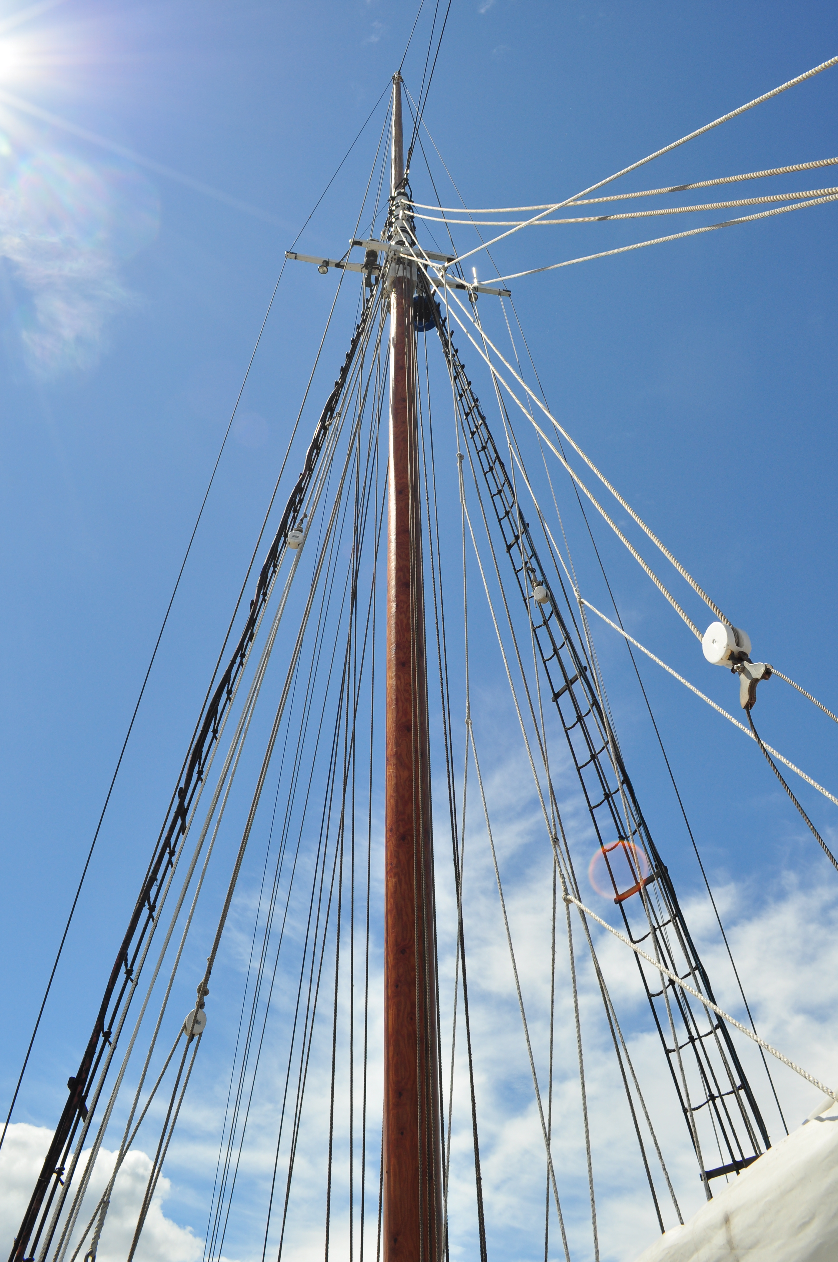 Mast and rigging: looking up one of the masts of the Adventuress. Photographed while the Adventuress was at Shilshole Bay Marina, Ballard, Seattle, Washington, U.S. for Marina Day 2016. Adventuress is a National Historic Landmark.